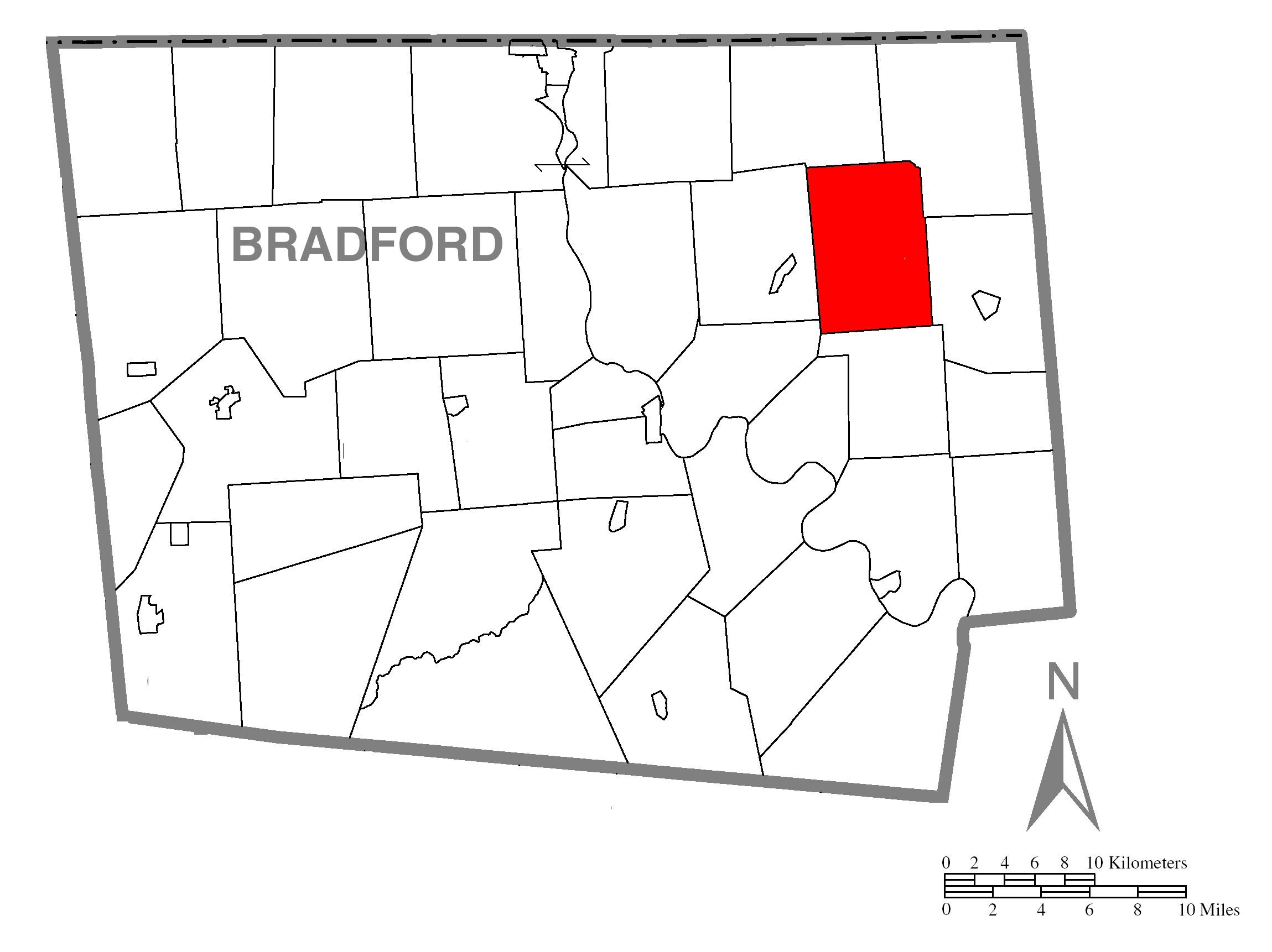 A map of Bradford County showing Orwell Township, Pennsylvania (alternate) highlighted on the map.